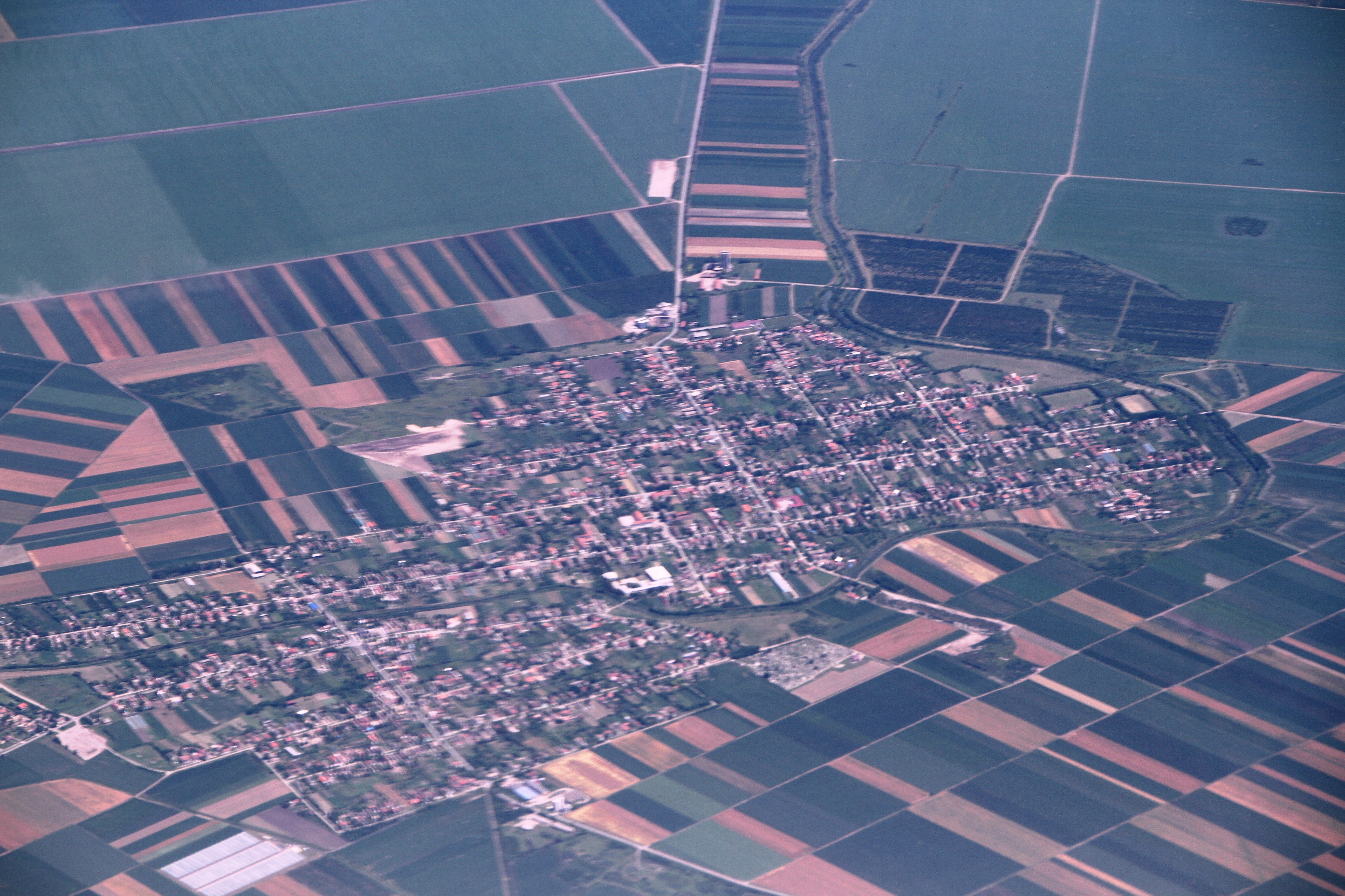 Aerial view from the west towards east, of Ravno Selo in Vojvodina, northern Serbia